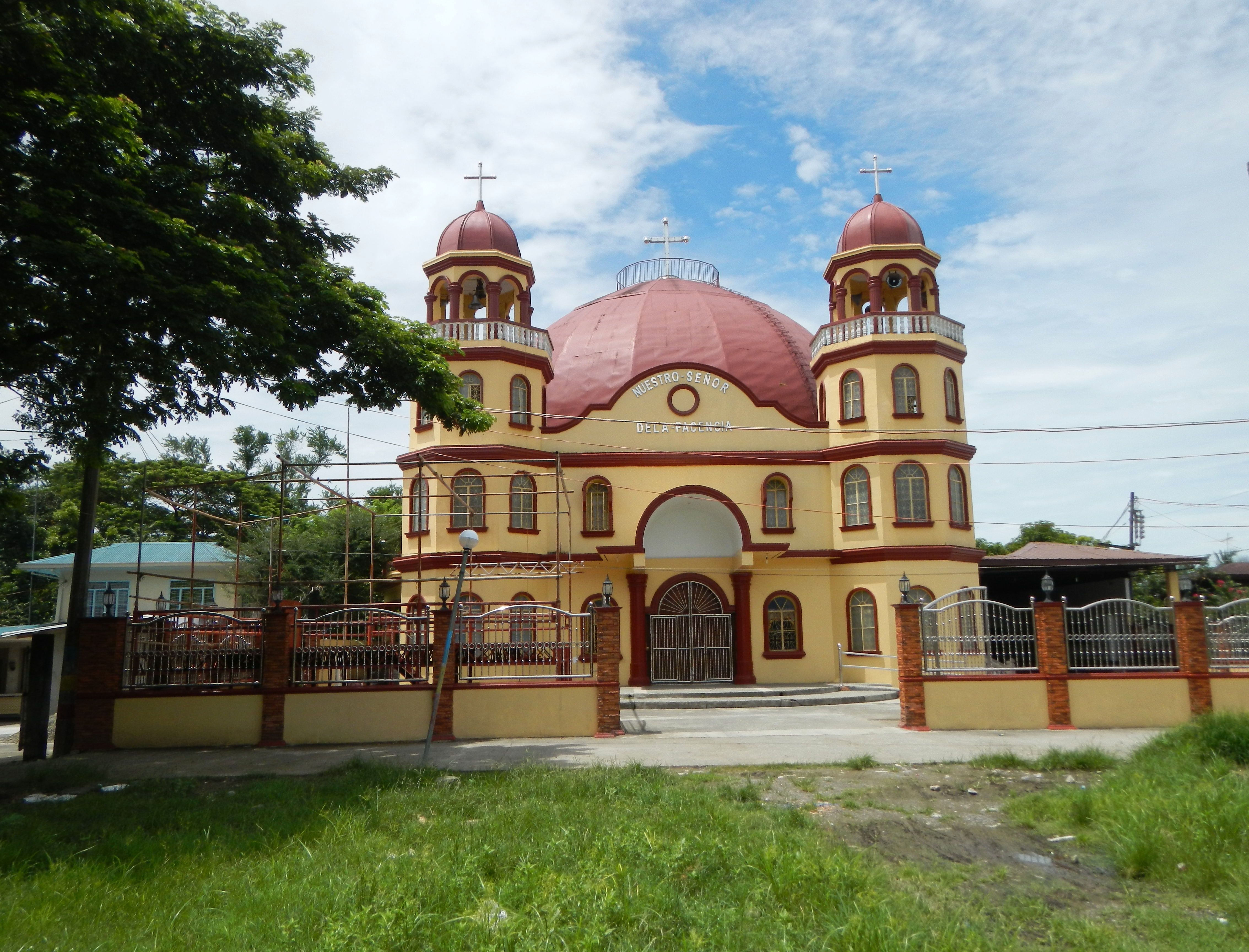 The Barangay Hall, Welcome arch and Nuestro Señor de la Pacencia Chapel along the long and winding dirt, rough and poorly paved, cemented roads) of Candaba, Pampanga Barangay Pulong Gubat, Candaba, Pampanga - Nuestro Señor de la Pacencia Chapel, Nuestro Padre Jesús de la Humildad y Paciencia, Roman Catholic Archdiocese of San Fernando [1]).